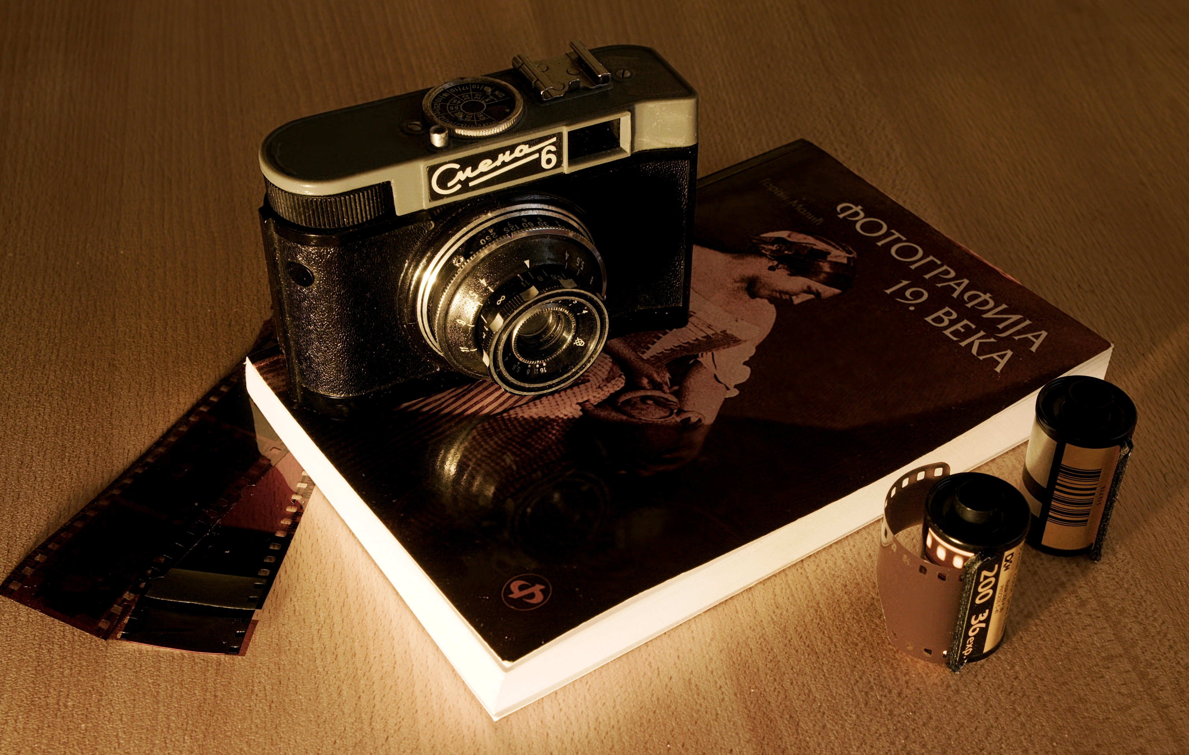 Old Soviet film camera Smena 6 sitting on book "Photography of 19th century" with standard 35 mm photographic films beside.